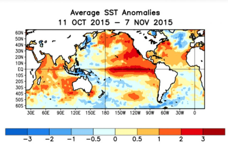 The SST Anomalies Average for 11 October, 2015 to 7 November 2015 in the 2015–2016 El Niño Event (en-Wikipedia article). Plots created from daily, weekly, and monthly NOAA Optimum Interpolation (OI) Version 2 SST data. Sea surface temperature (SST) is the temperature of the top millimeter of the ocean’s surface. An anomaly is a departure from average conditions. These maps compare temperatures in a given month to the long-term average temperature of that month from 1985 through 1997. Blue shows temperatures that were cooler than average, white shows near-average temperatures, and red shows where temperatures were warmer than average. (from